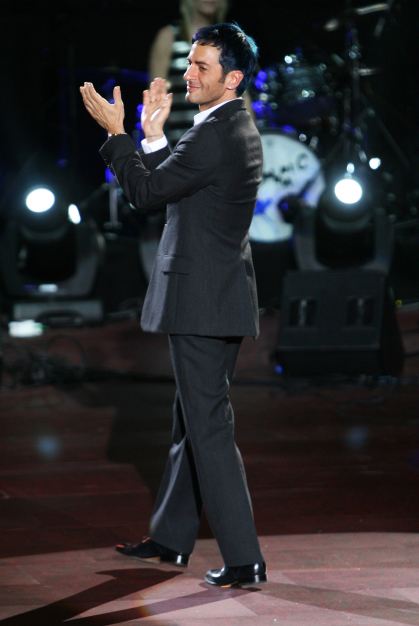 Marc Jacobs